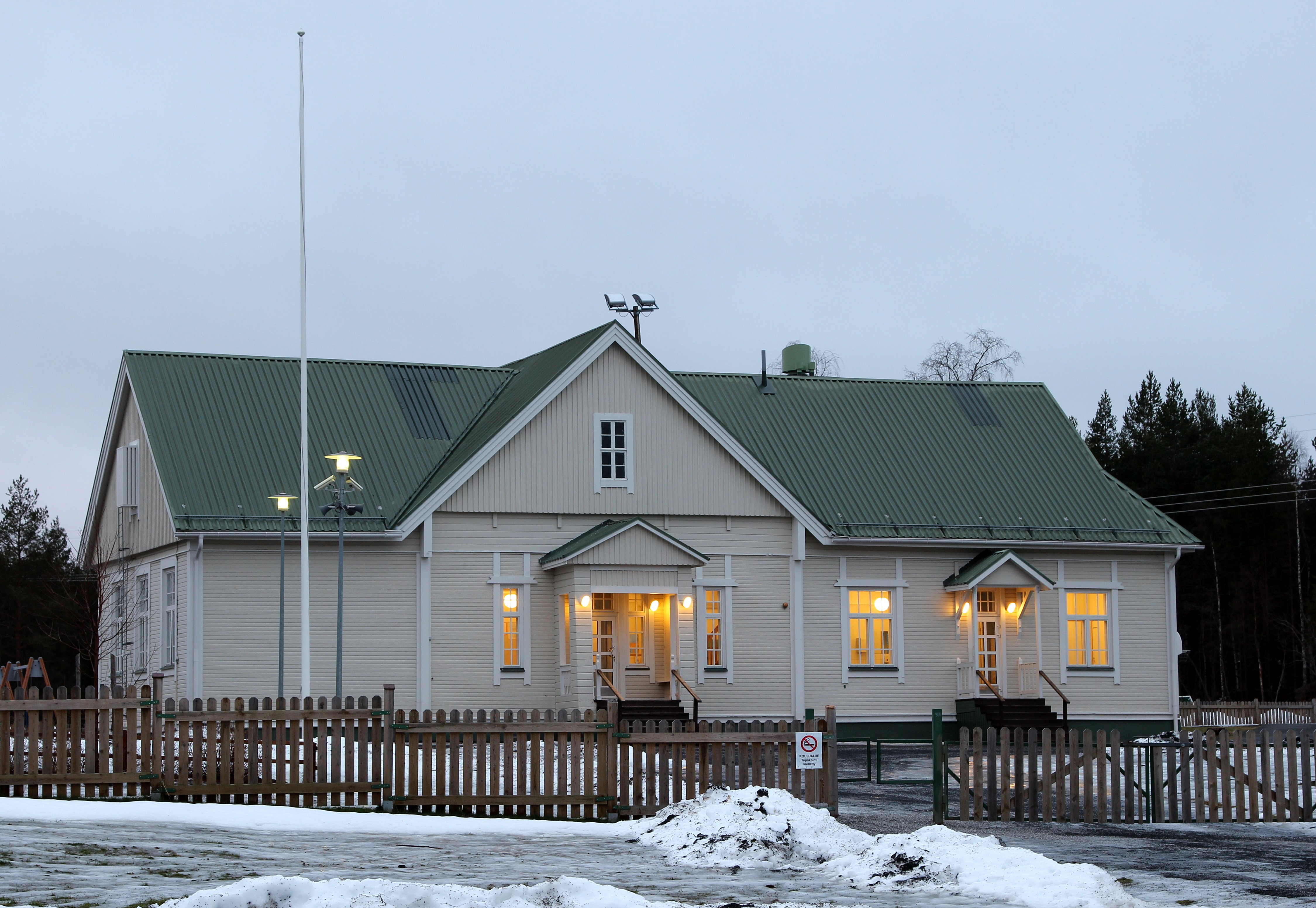 The Alakylä School in Oulu.